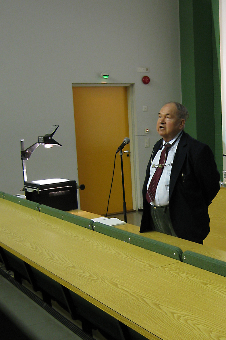 Abrikosov lecturing in Otaniemi, Finland, 2006.